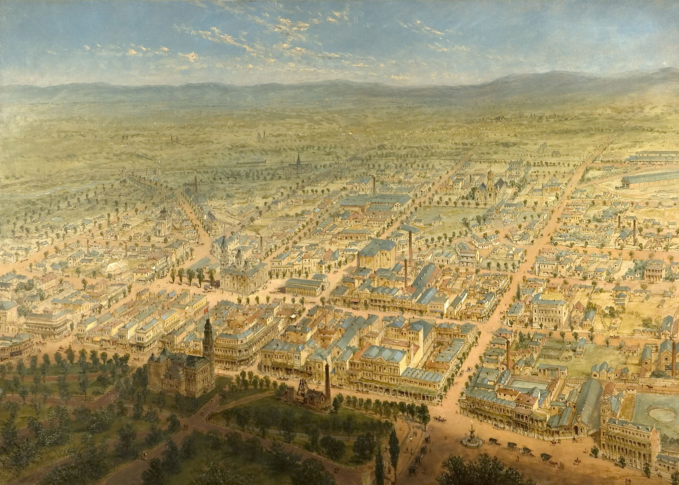 Sandhurst (Bendigo) from Camp Hill, 1884, oil on canvas